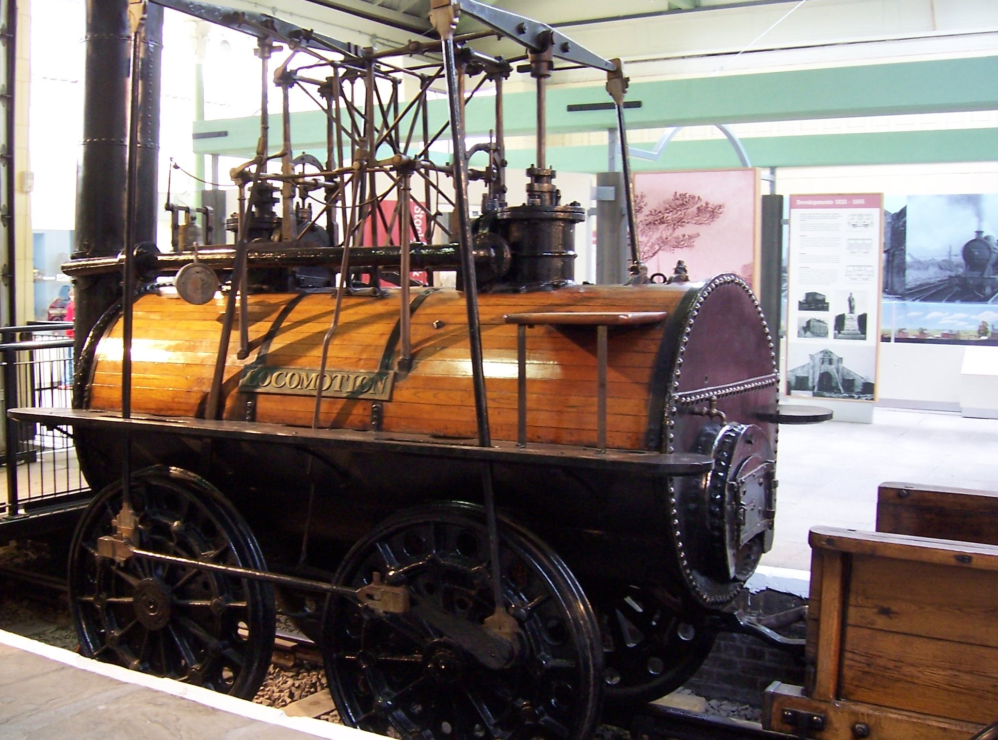 Stephenson's Locomotive opened the Stockton and Darlington Railway on 27th September 1825, pulling coal trucks. It is now housed in the Darlington Railway Centre and Museum.